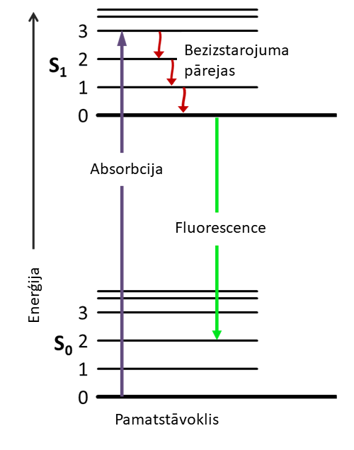 Jablonski diagram